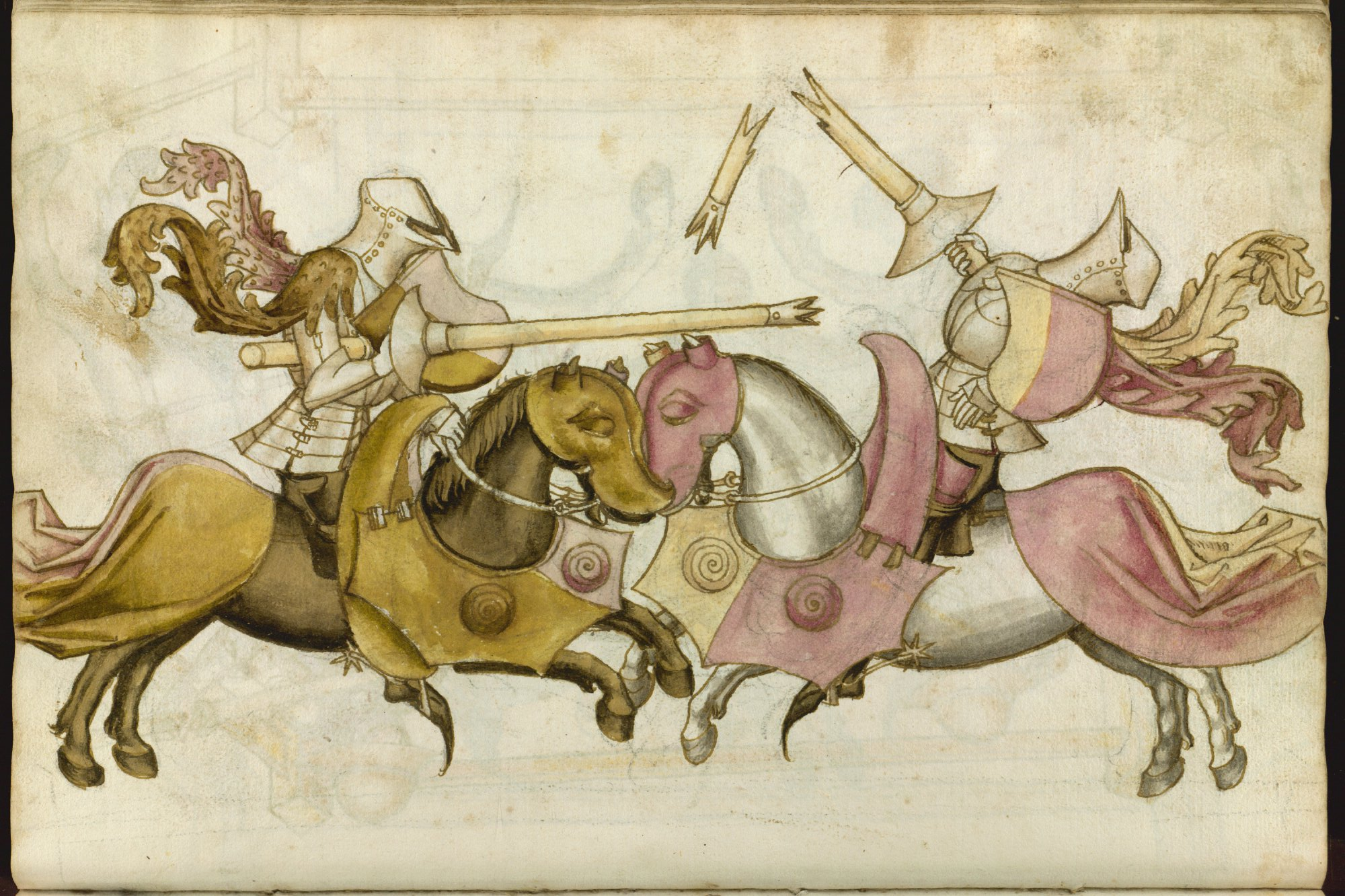 The Ms.Thott.290.2º is a fencing manual written in 1459 by Hans Talhoffer for his own personal reference and illustrated by Michel Rotwyler.